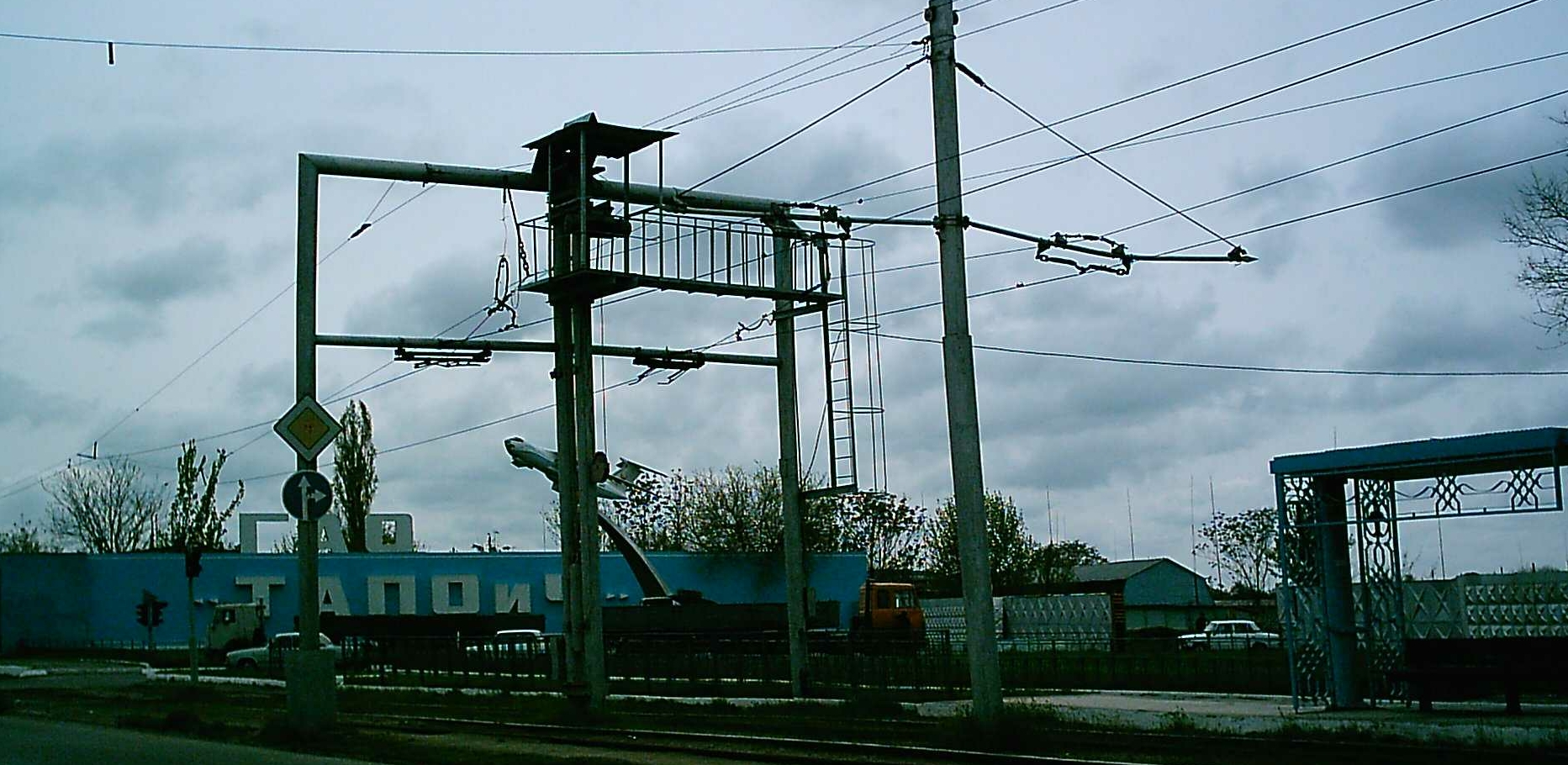 The entrance of Tashkent Aviation Production Association. The replica of Ilyushin IL-76 plane. The front device is tram line lifter: (Russian)